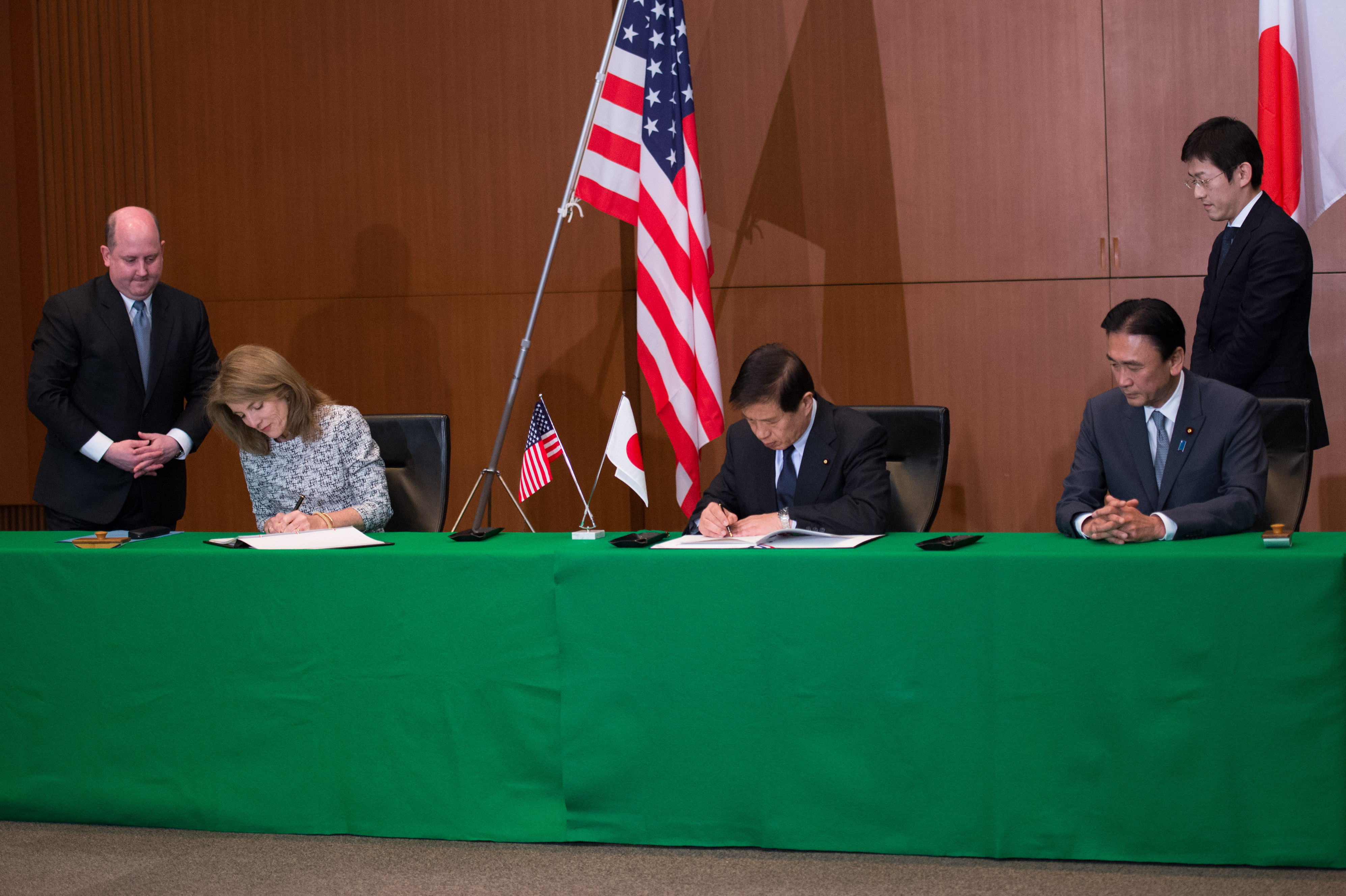 Norio Mitsuya, Senior Vice-Minister for Foreign Affairs, and Caroline Kennedy, Ambassador to Japan, signed the Agreement between the Government of Japan and the Government of the United States of America on Enhancing Cooperation in Preventing and Combating Serious Crime with Keiji Furuya, Chairman of the National Public Safety Commission, in Tōkyō Metropolis on February 7, 2014.